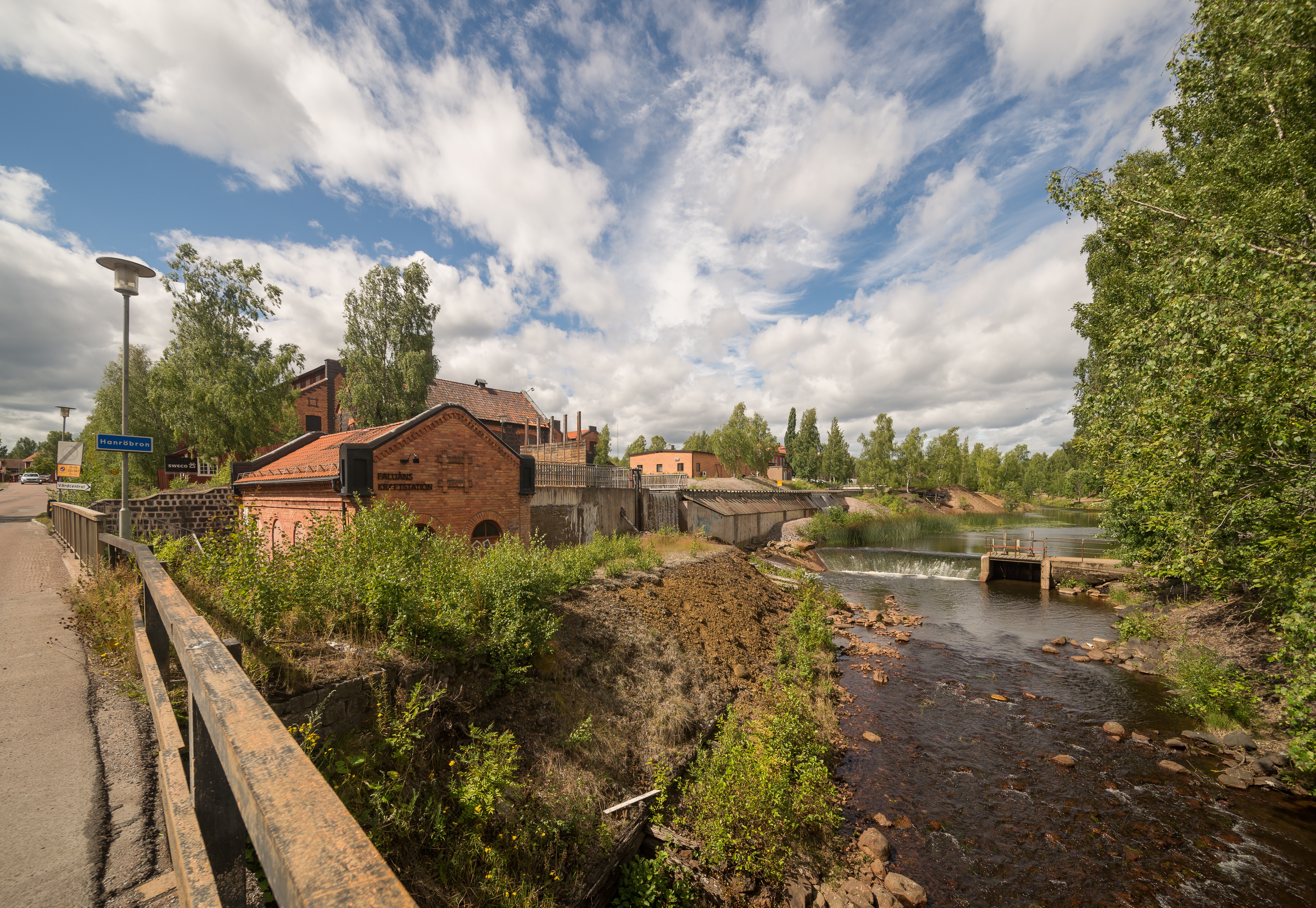 Historic industrial landscape in Falun, Sweden.